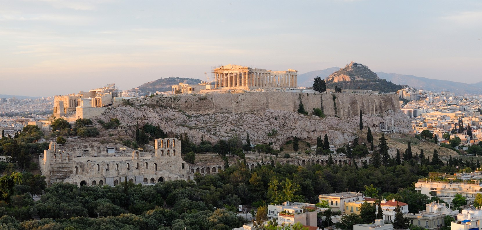 The Acropolis as viewed from the Mouseion Hill.